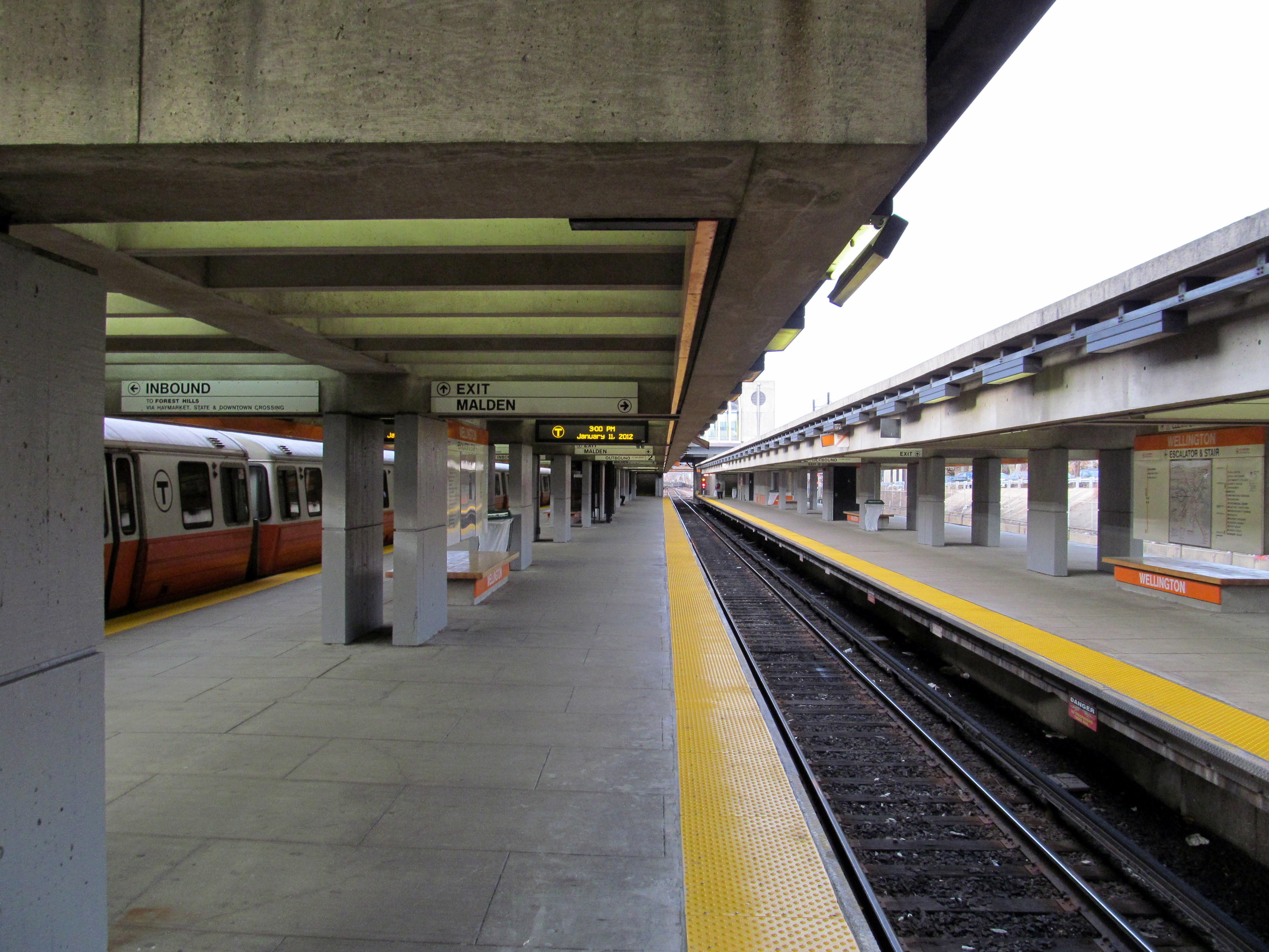 Station platforms at Wellington on the MBTA Orange Line